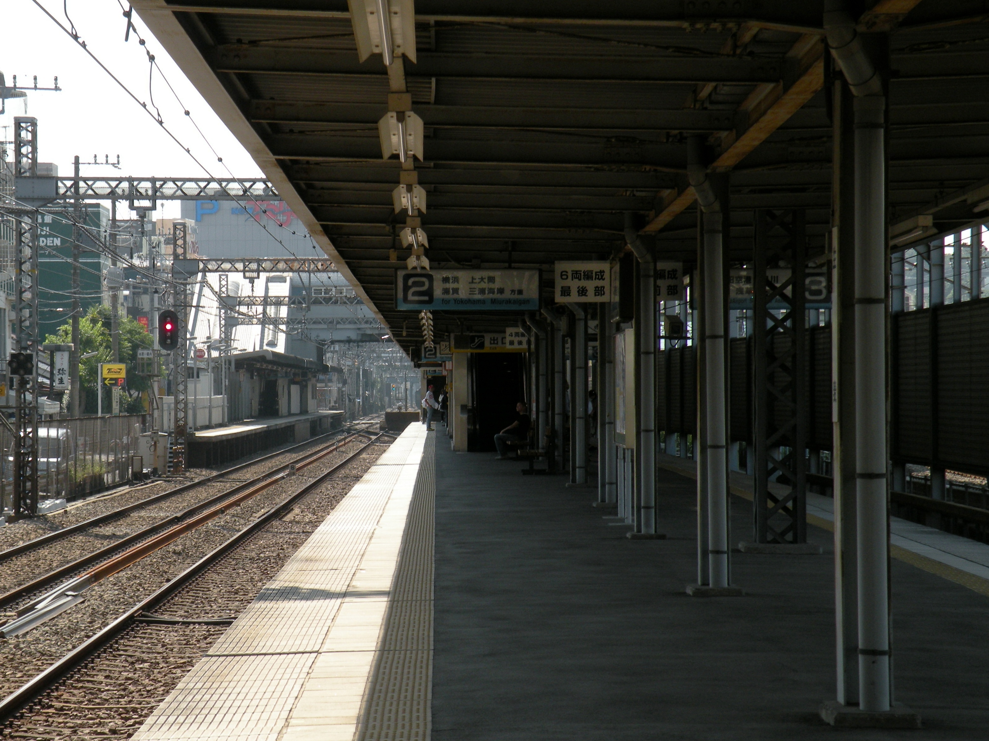 Keikyu Keikyu Main Line,Namamugi Station-platform (Kanagawa, Japan)